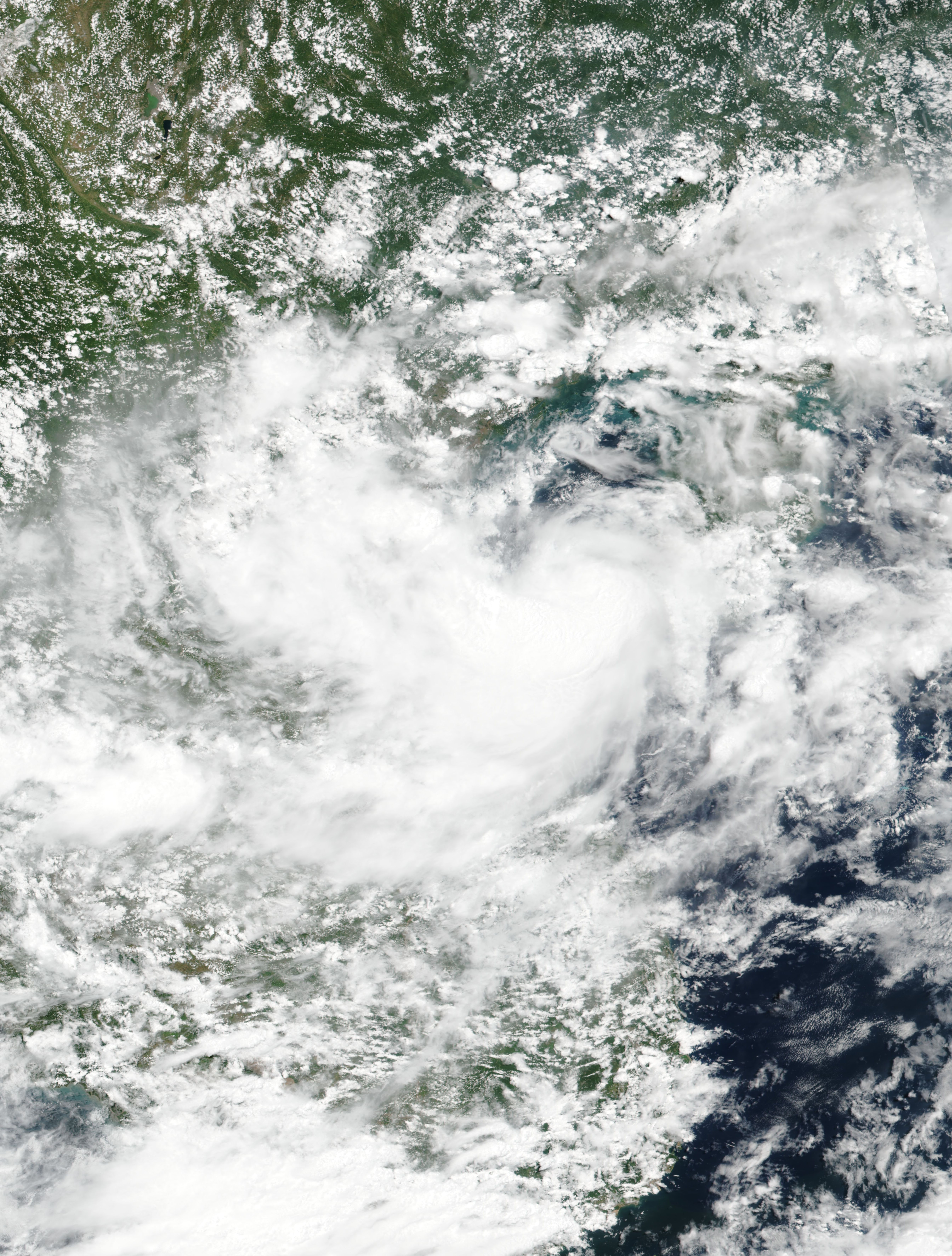 Tropical Storm Son-Tinh (11W) nearing landfall on July 18, 2018